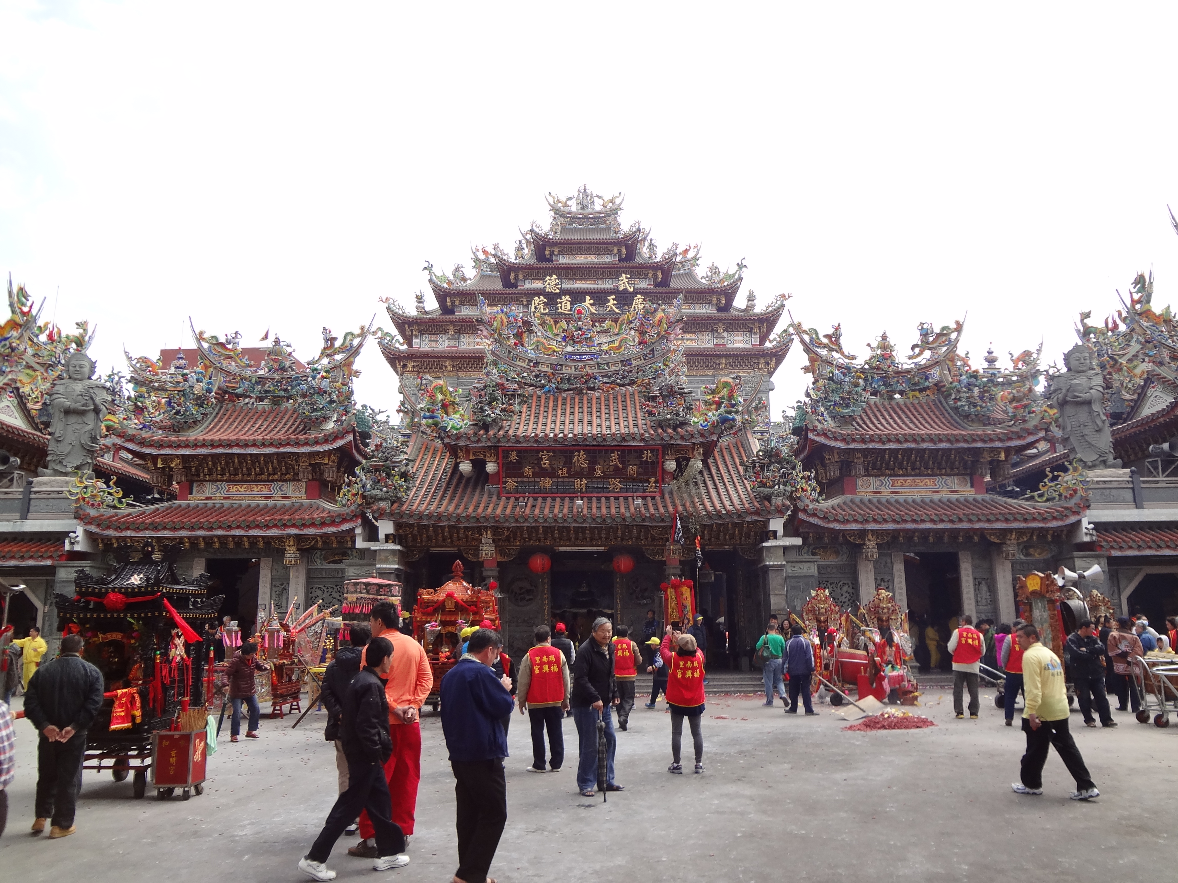 Beigang Wude Temple中文（台灣）: 北港武德宮，位於臺灣雲林縣北港鎮華勝路330號。